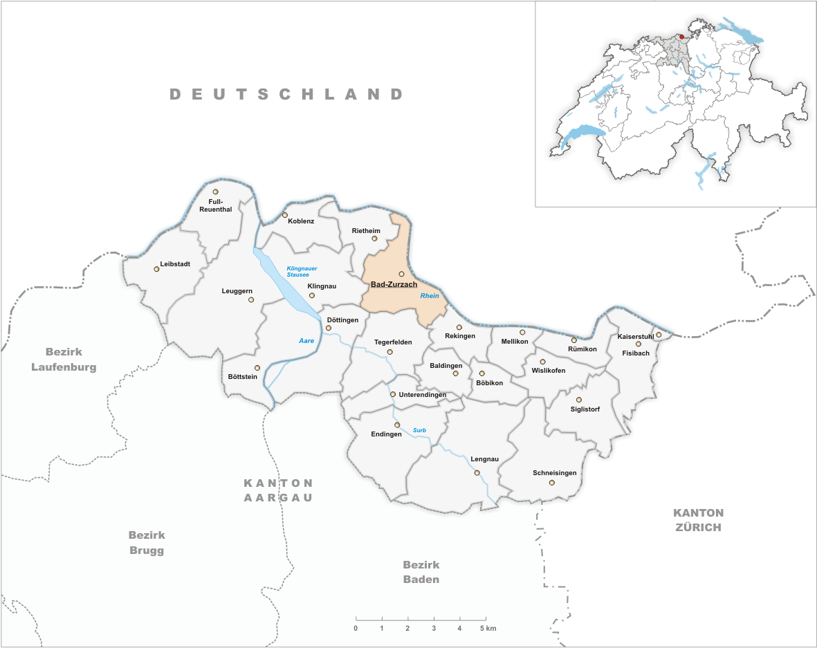 Municipality Bad-Zurzach